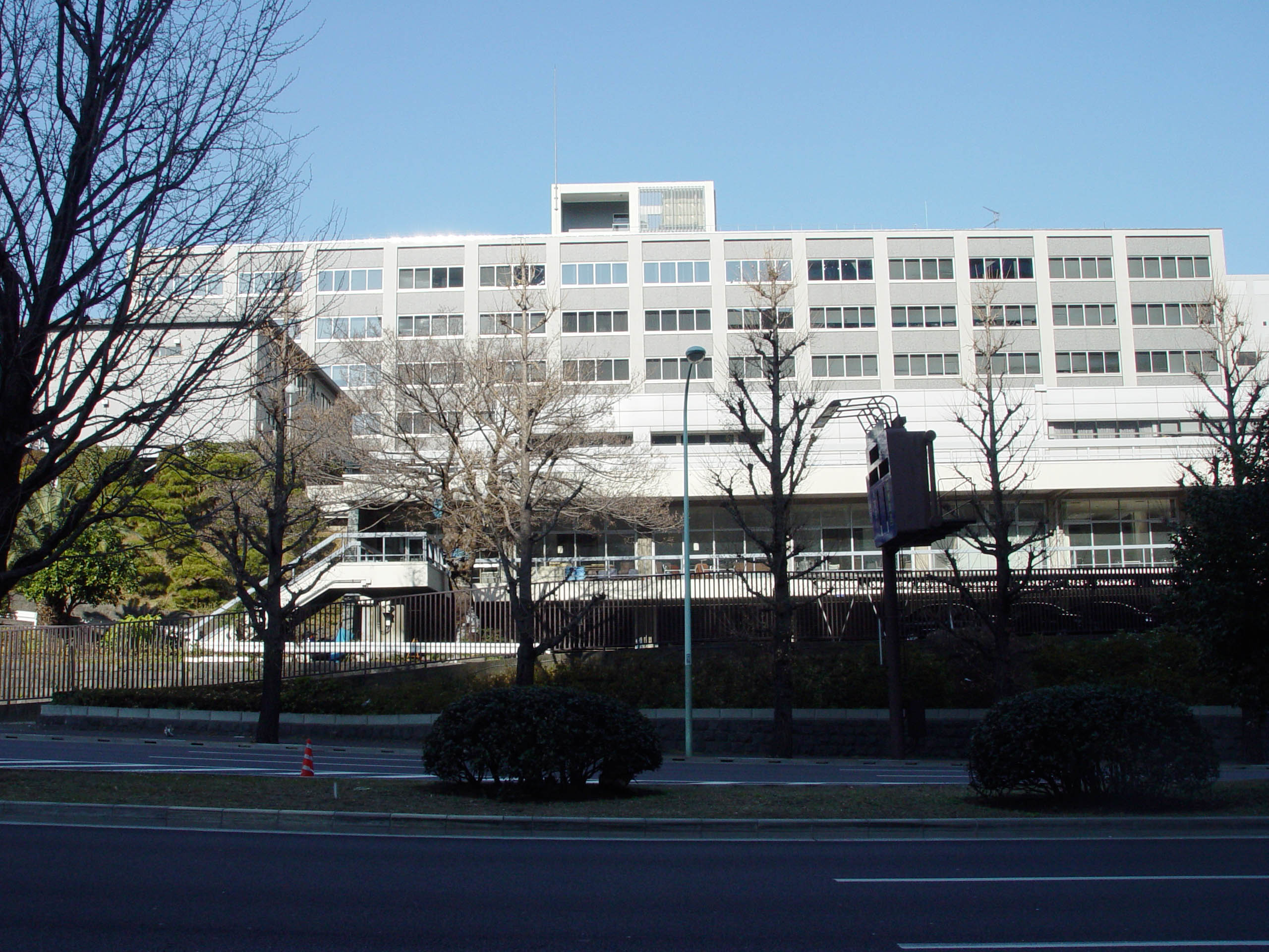 Public office building of Japan: The Cabinet Office The Cabinet Secretariat 庁舎： 内閣府 内閣官房